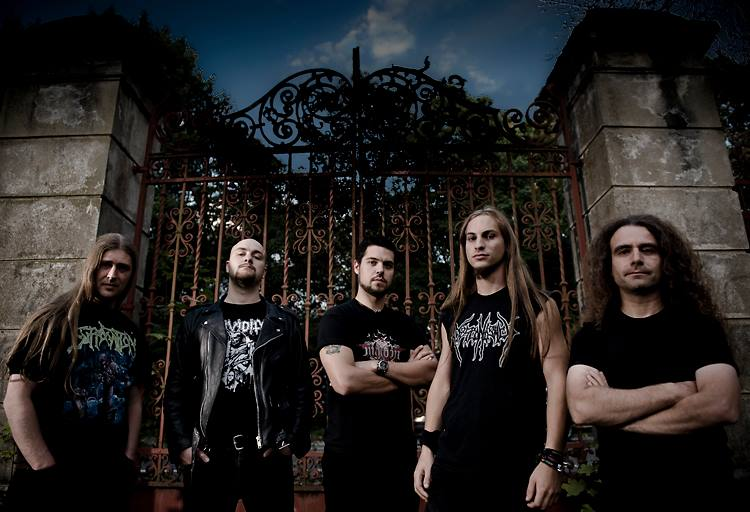 Epicedium Bandphoto